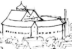 Sketch for inclusion in Wenceslas Hollar's "Long view of London", 1644, showing second Globe Theatre